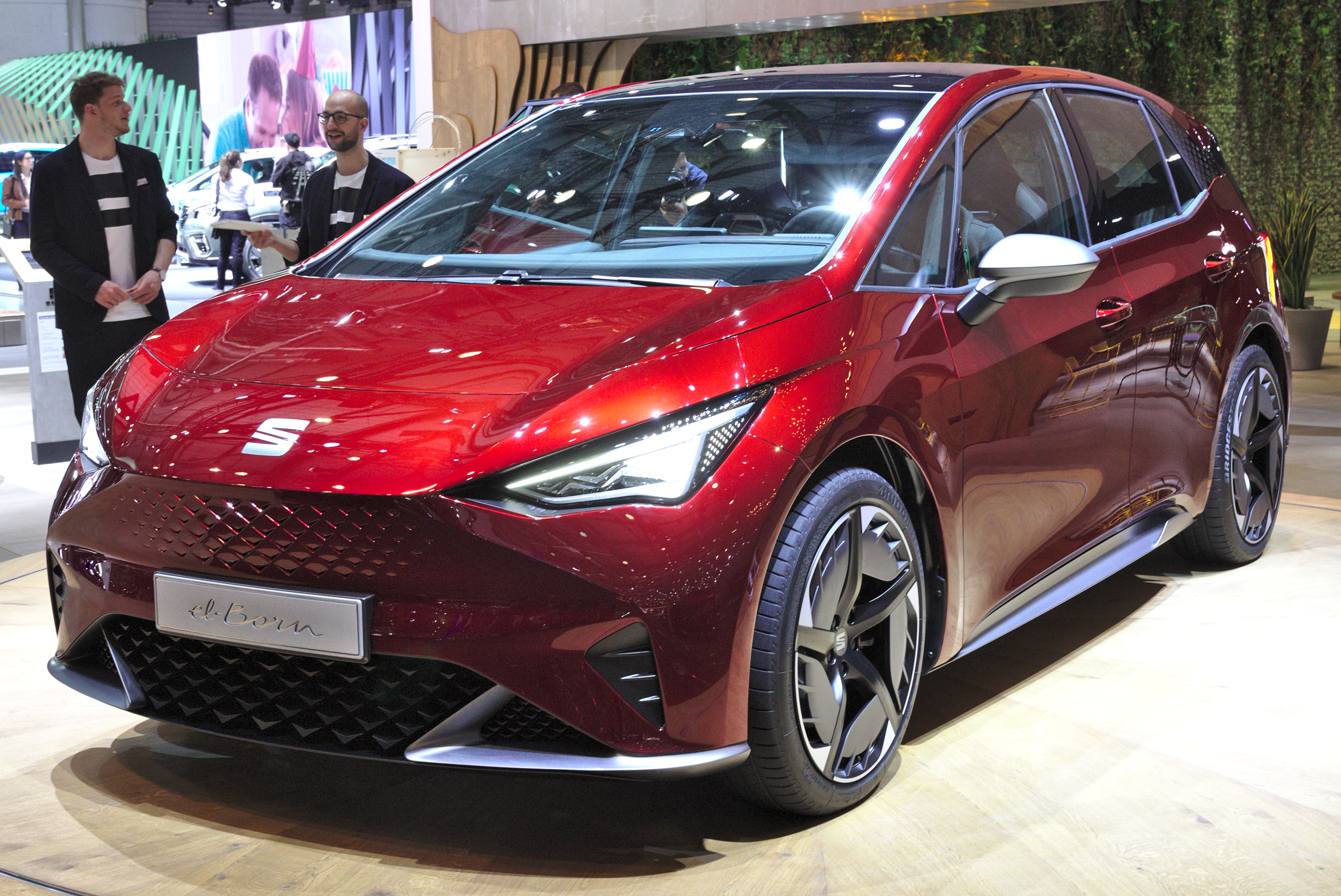 Seat el-Born Concept at Geneva Motor Show 2019